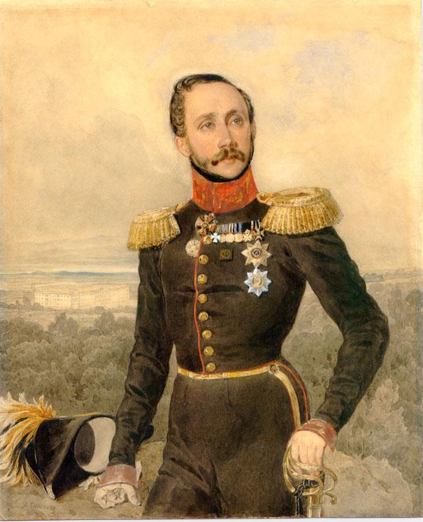 Chertkov, Nikolay Dimitriyevich